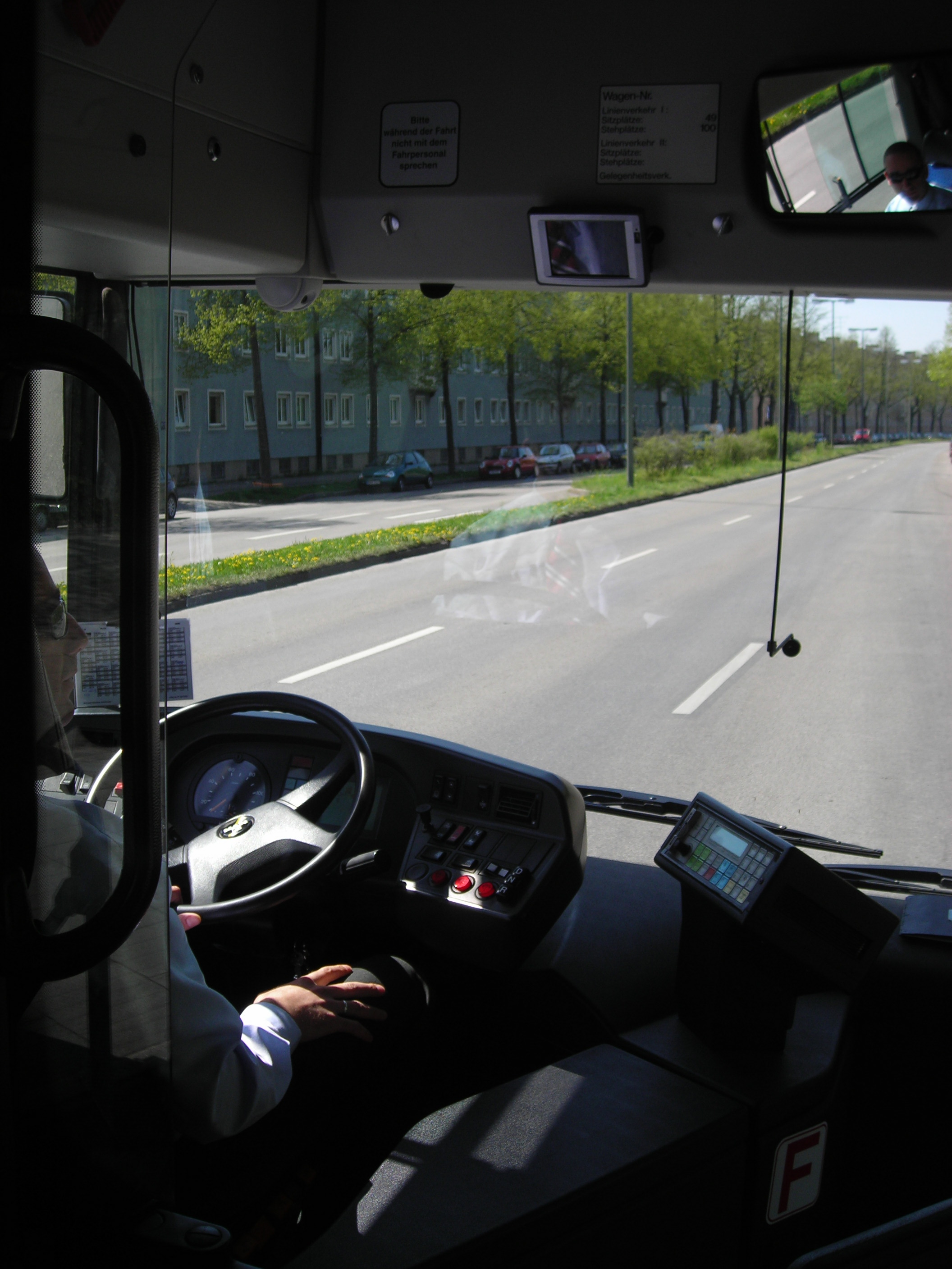 Person conducting a bus in Munich.